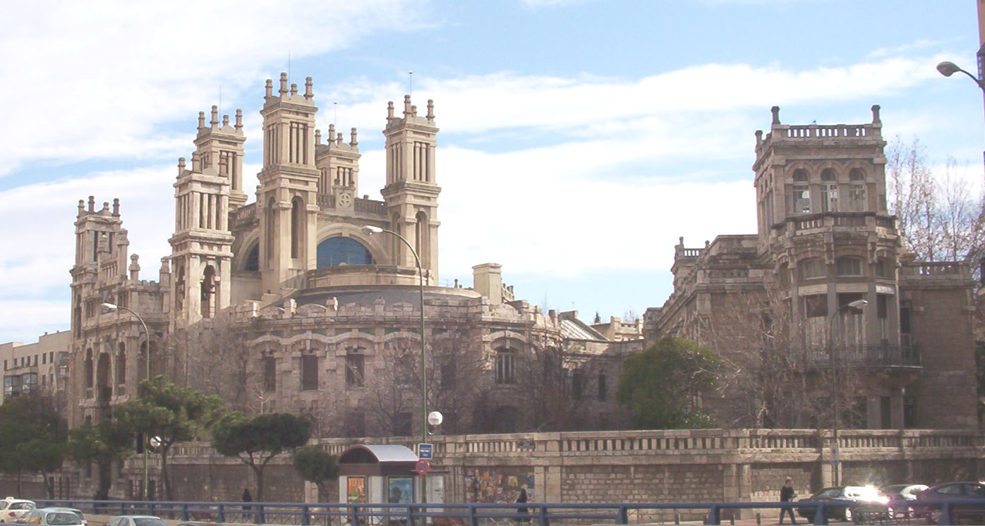 View, from the north-west angle, of Maudes Hospital, at 18 Calle de Raimundo Fernández Villaverde (street) in Chamberí district in Madrid (Spain). It's a former hospital, projected in 1908 by architects Antonio Palacios and Joaquín Otamendi Machimbarrena, and built between 1909 and 1916.